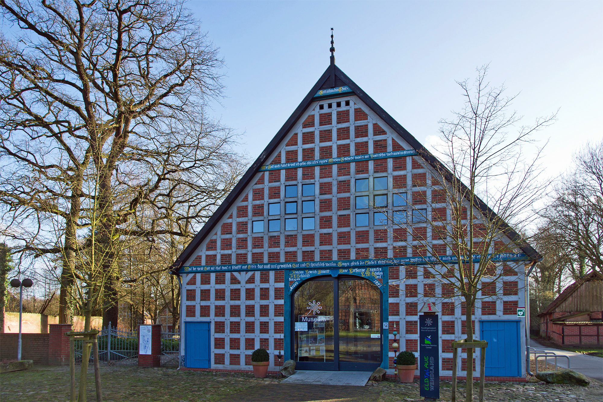 Museum of "Rundlings", "Wendlandhof", in the small village Lübeln (district Lüchow-Dannenberg, northern Germany).